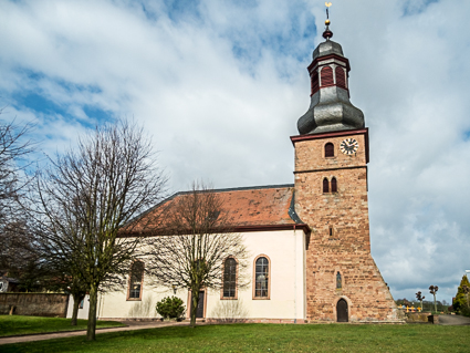 evang. Kirche Sippersfeld